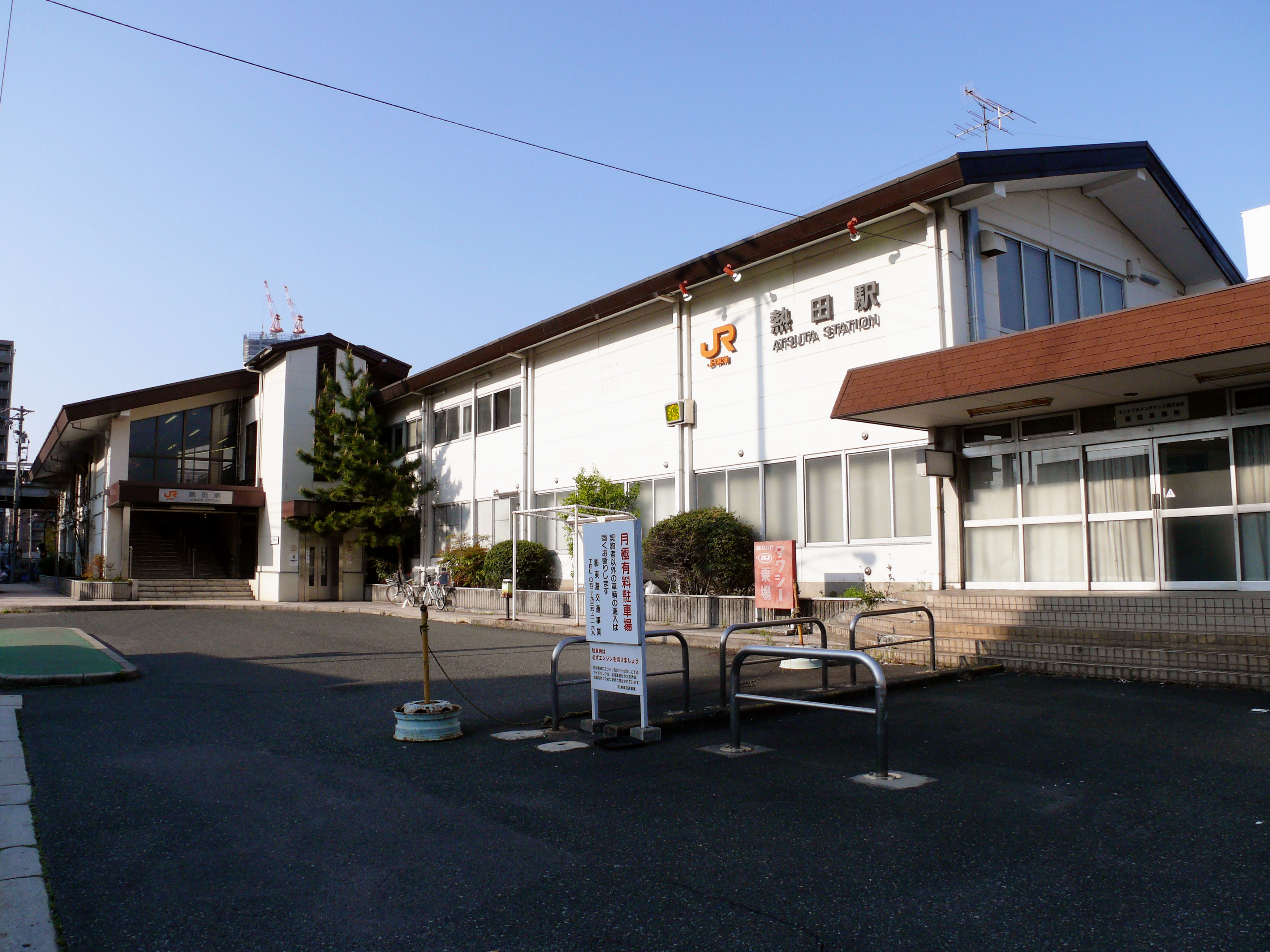 JR Central of Atsuta Station.